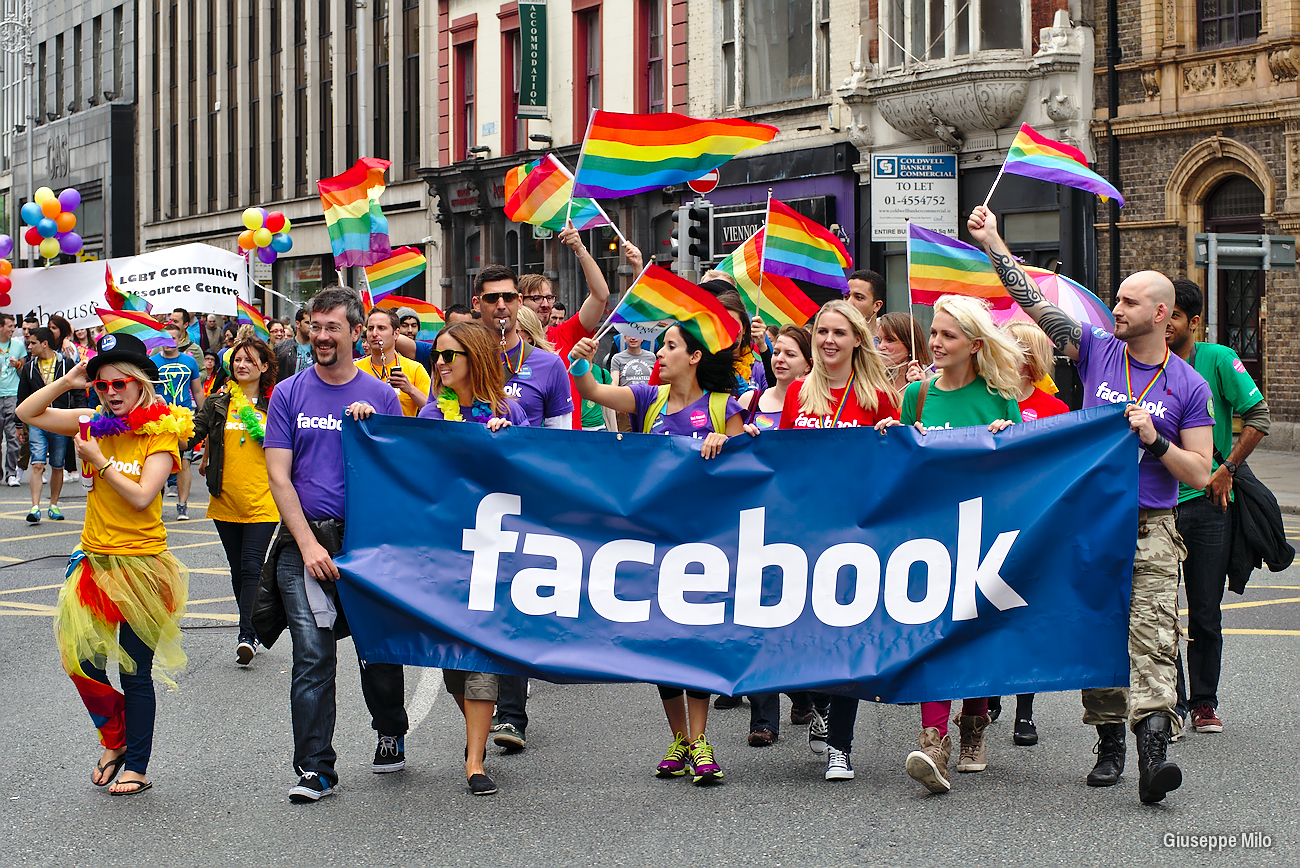 Dublin gay pride 2013